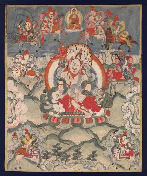 712895 Kubera, the Divinity of Wealth with Eight Horsemen, 18th-19th century (Thangka: colours on cloth, cloth mountings) by Tibetan School; Mount:93.3x68.3 Image:59.4x49.2 cm; Mead Art Museum, Amherst College, MA, USA; Bequest of Alban G. Widgery; Tibetan, out of copyright. PLEASE NOTE: Bridgeman Images works with the owner of this image to clear permission. If you wish to reproduce this image, please inform us so we can clear permission for you.